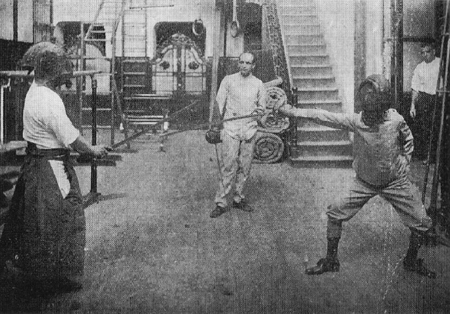 Knedo vs Fencing Left : Mitsuyo Maeda (Kendo) Center : No information (Fencing) Right : No information (Fencing)